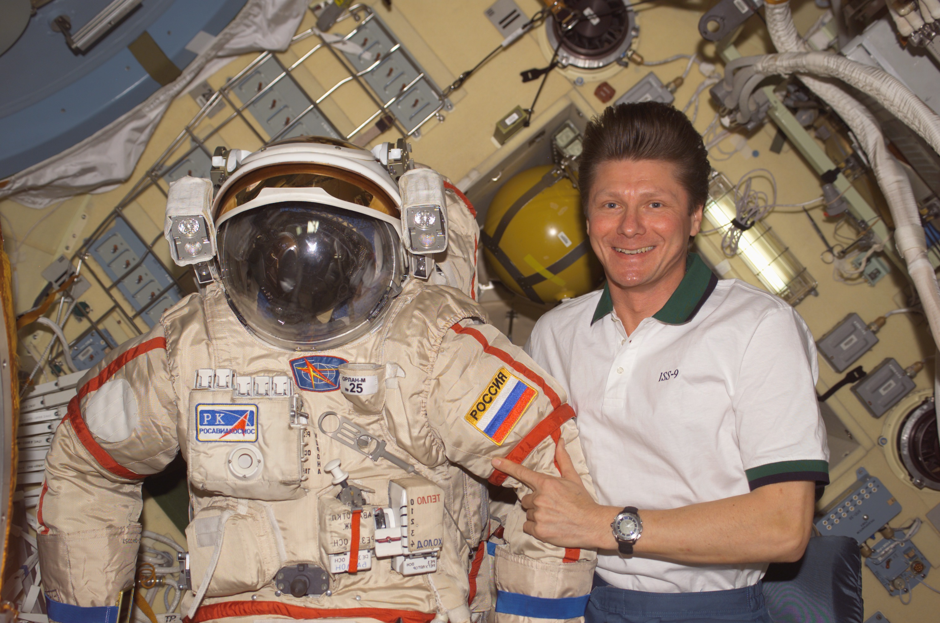 Cosmonaut Gennady I. Padalka, Expedition 9 commander representing Russia’s Federal Space Agency, is pictured with his Russian Orlan spacesuit in the Pirs Docking Compartment of the International Space Station (ISS). Extravehicular activity (EVA) is scheduled for June 24.